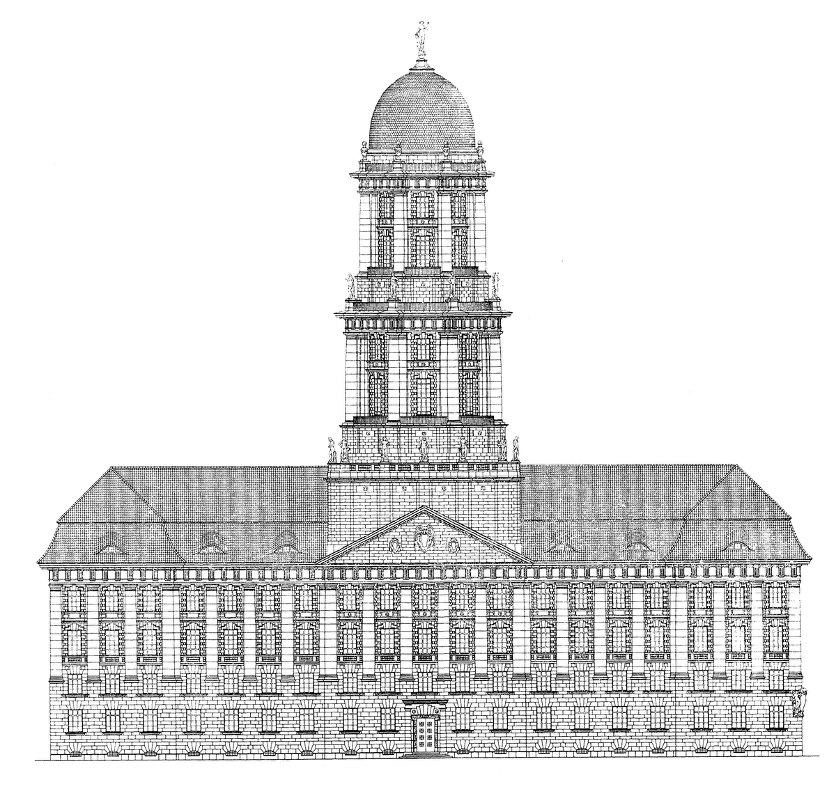 Outline of the Altes Stadthaus, Berlni